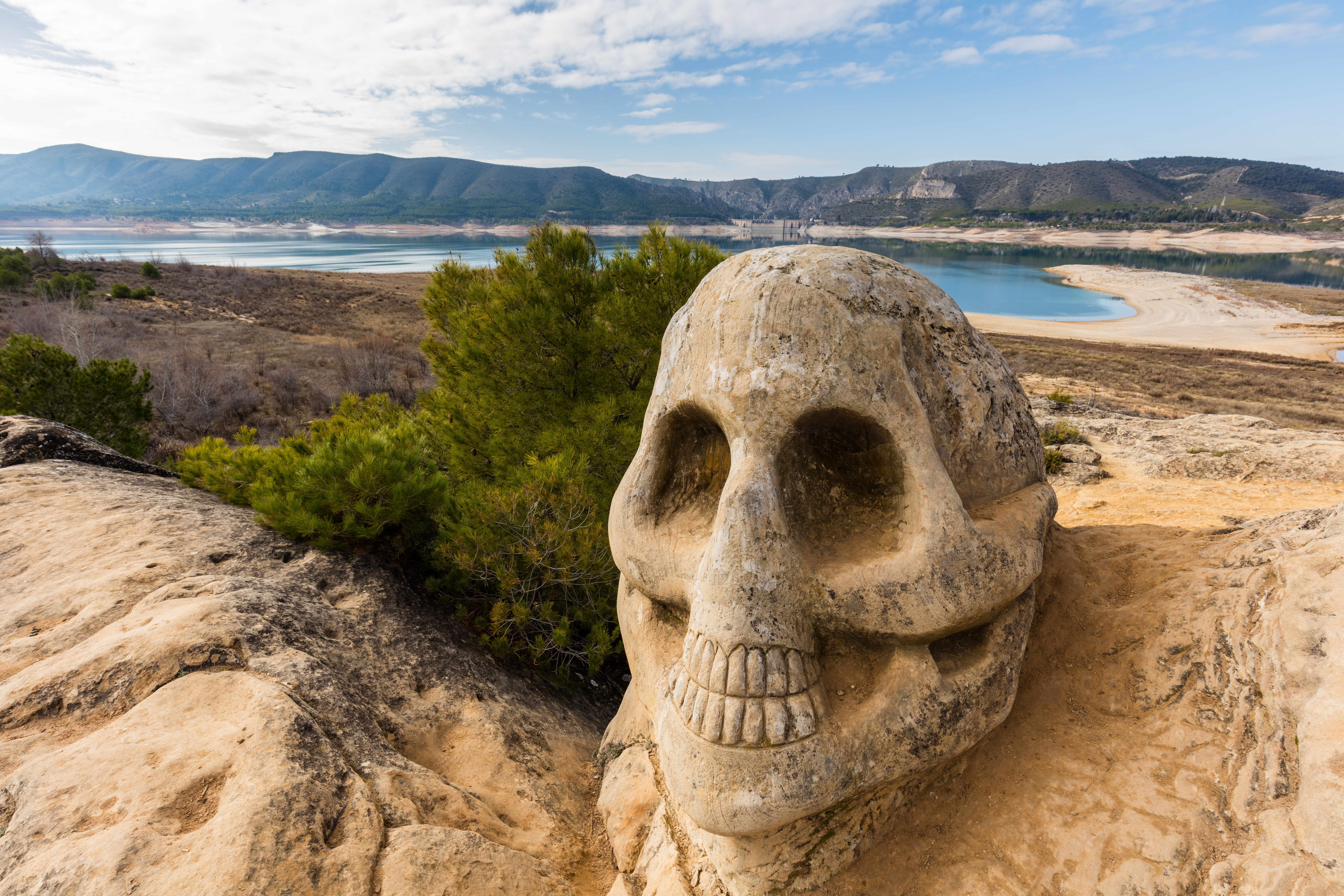 Ruta de las Caras, Cuenca, Spain